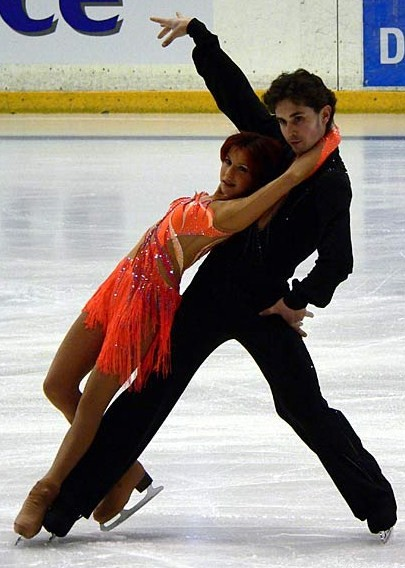 Jana Khokhlova and Sergei Novitski at the 2006 European Figure Skating Championships